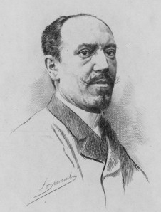 French writer Edmond Haraucourt (1856-1941)